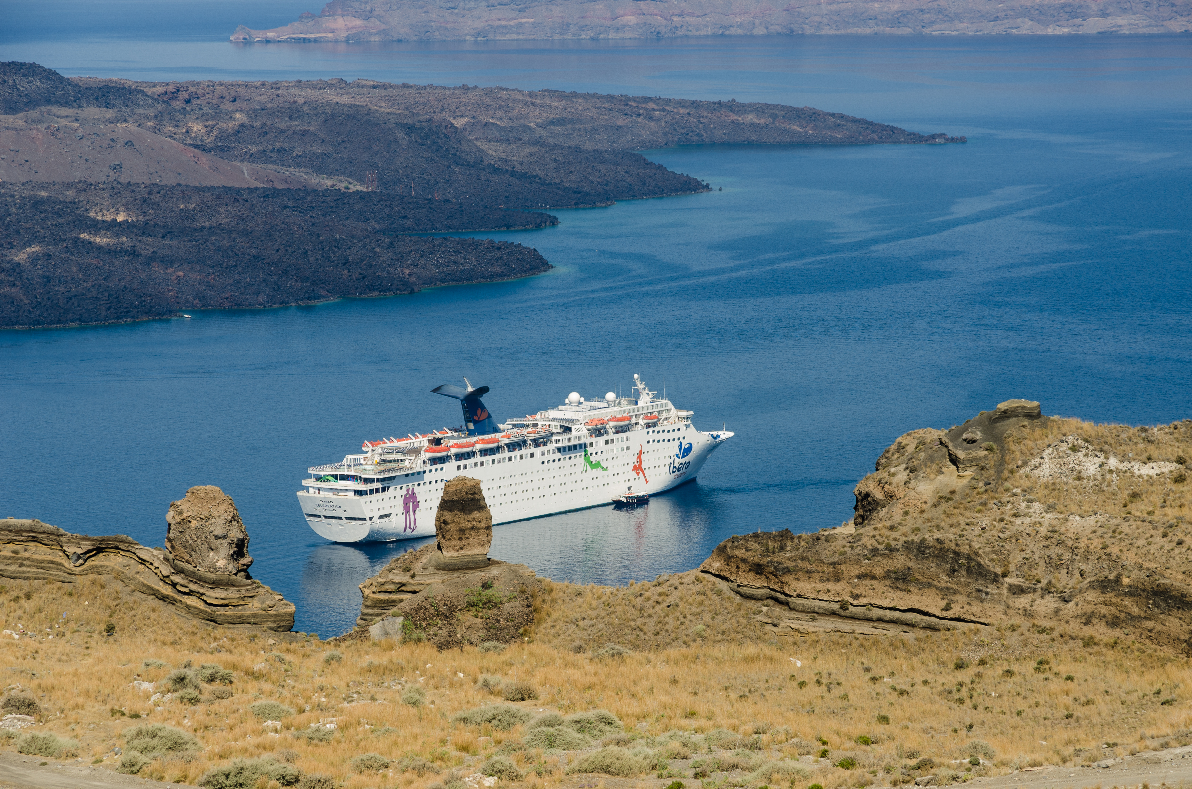 Grand Celebration cruise ship (Ibero Cruceros ship owning company) in the caldera of Santorini, Greece.